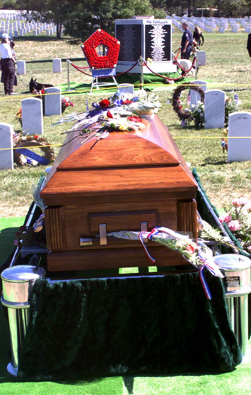 The casket containing the remains of 25 individuals killed at the Pentagon during the 9/11 terrorist attacks awaits burial at Arlington National Cemetery in Arlington, Virginia, U.S., on September 12, 2002. The funeral was for those five individuals for whom no remains could be identified after the attack. The remains of 25 others (the majority of whose remains had been identified and buried months earlier; additional remains had been found, however) were cremated, interred in an urn, the urn placed in a casket, and the casket interred beneath the Victims of Terrorist Attack on the Pentagon Memorial. The Victims of Terrorist Attack on the Pentagon Memorial (black cube-like object) can be seen in the rearground, along with a red carnation floral display in the form of a pentagon.